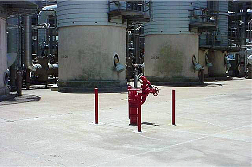 A fixed fire monitor at the Formosa Plastics plant in Point Comfort, TX.